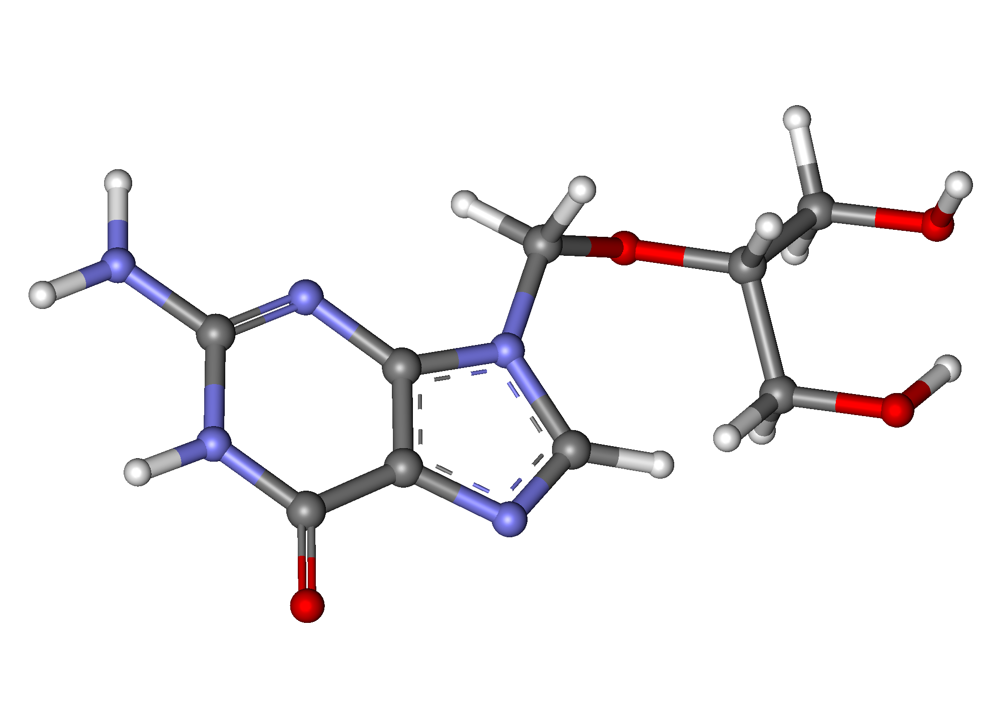 Ball-and-stick model of ganciclovir molecule. The structure is taken from ChemSpider. ID 3336